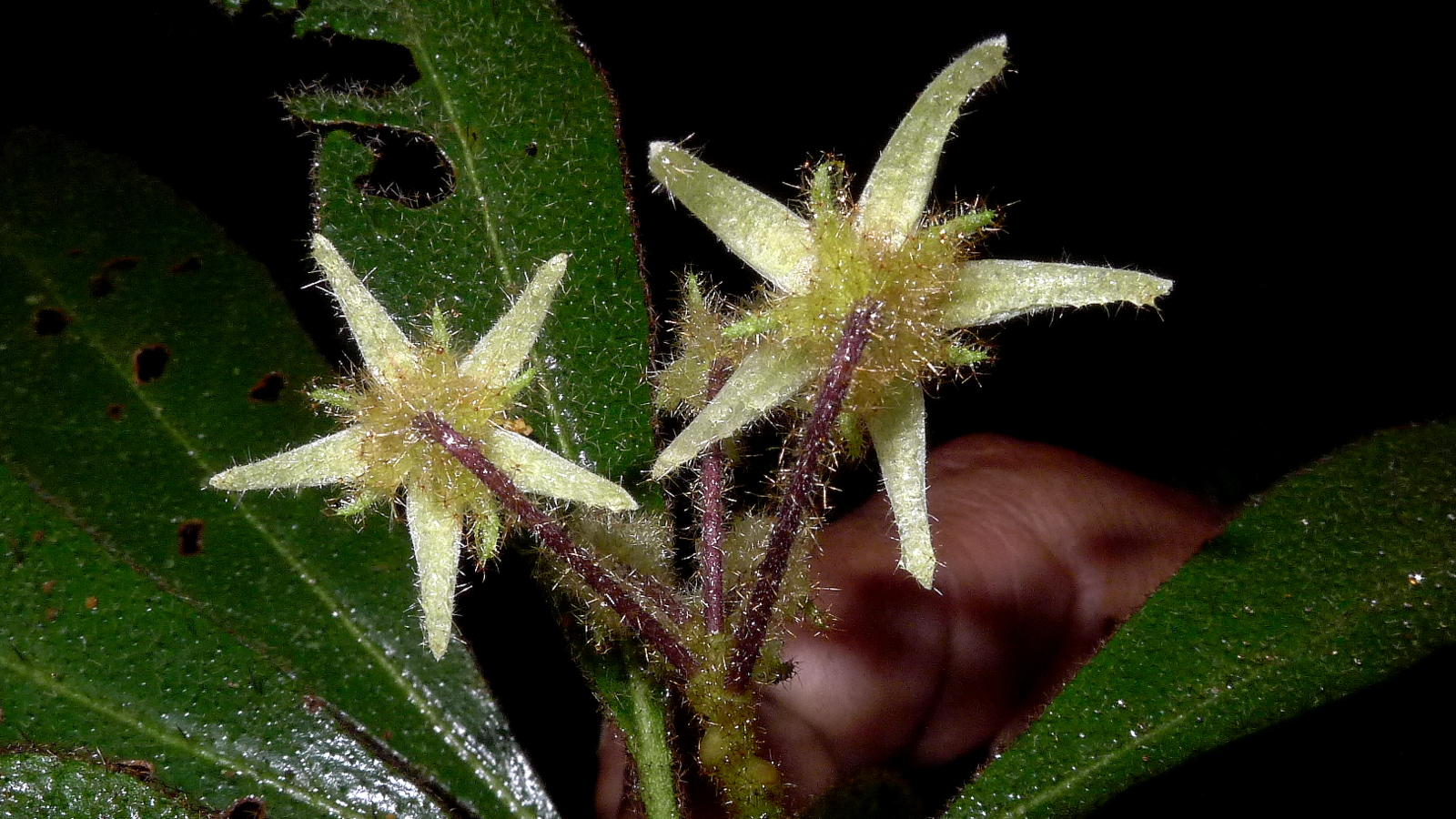 Solanum polytrichum Moric.